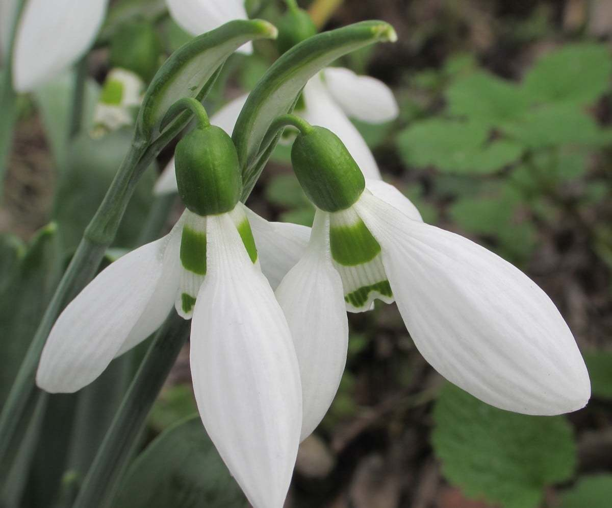 Galanthus elwesii flower